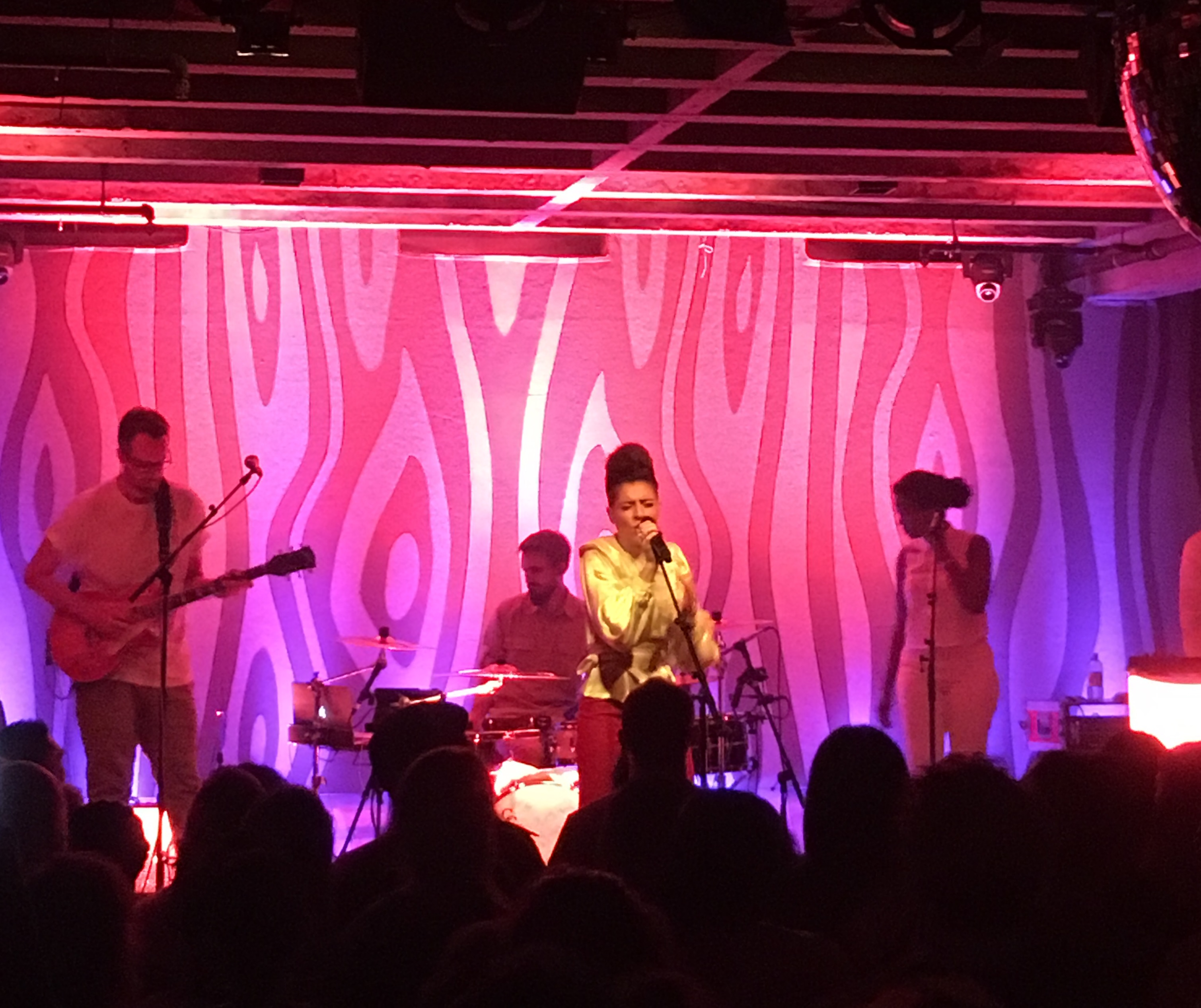 Photo of singer/guitarist Emily King performing at the Doug Fir in Portland, OR August 5, 2016.